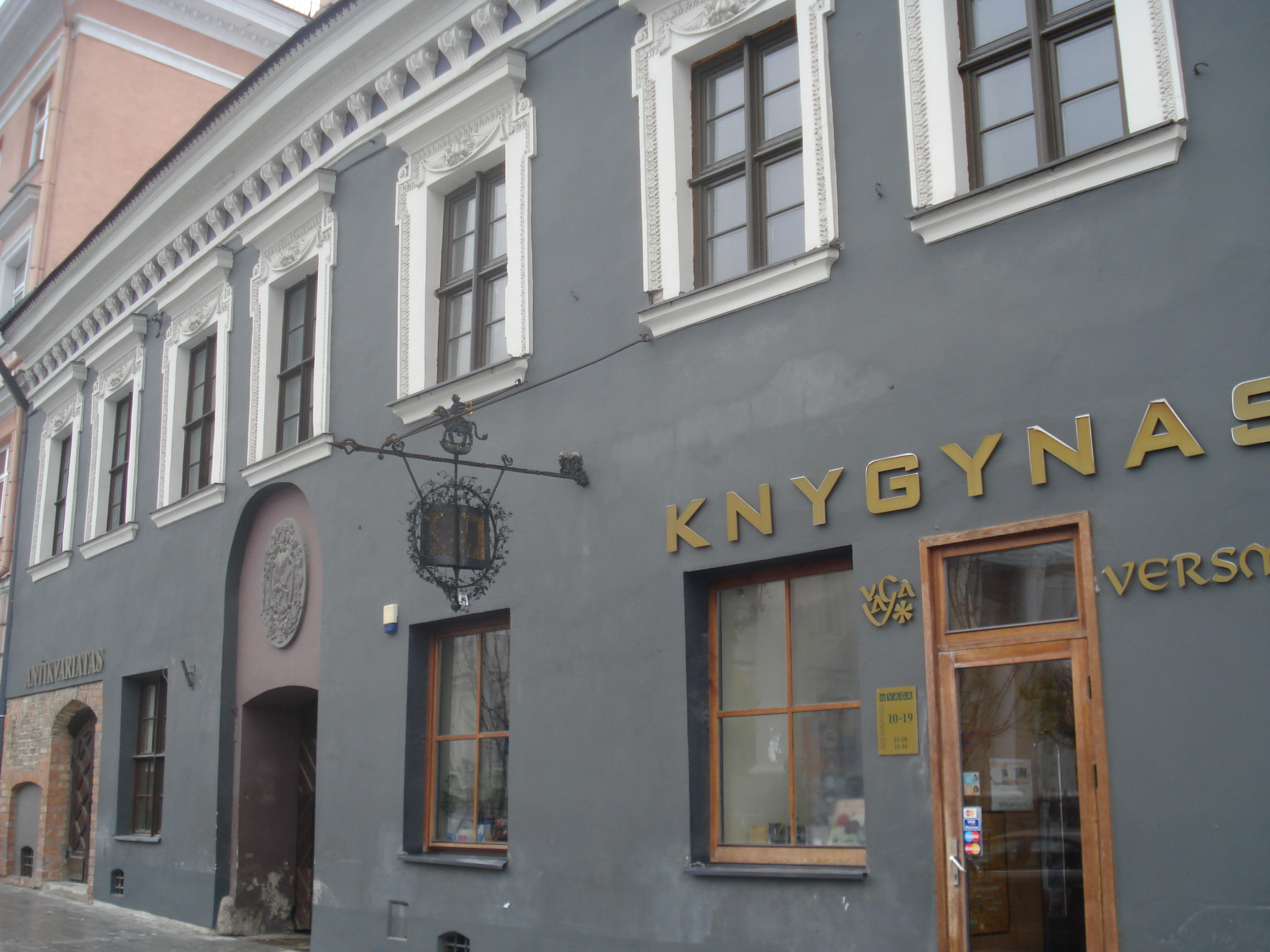 Bookstore in Town hall Square in Vilnius (Didžioji g. 27)